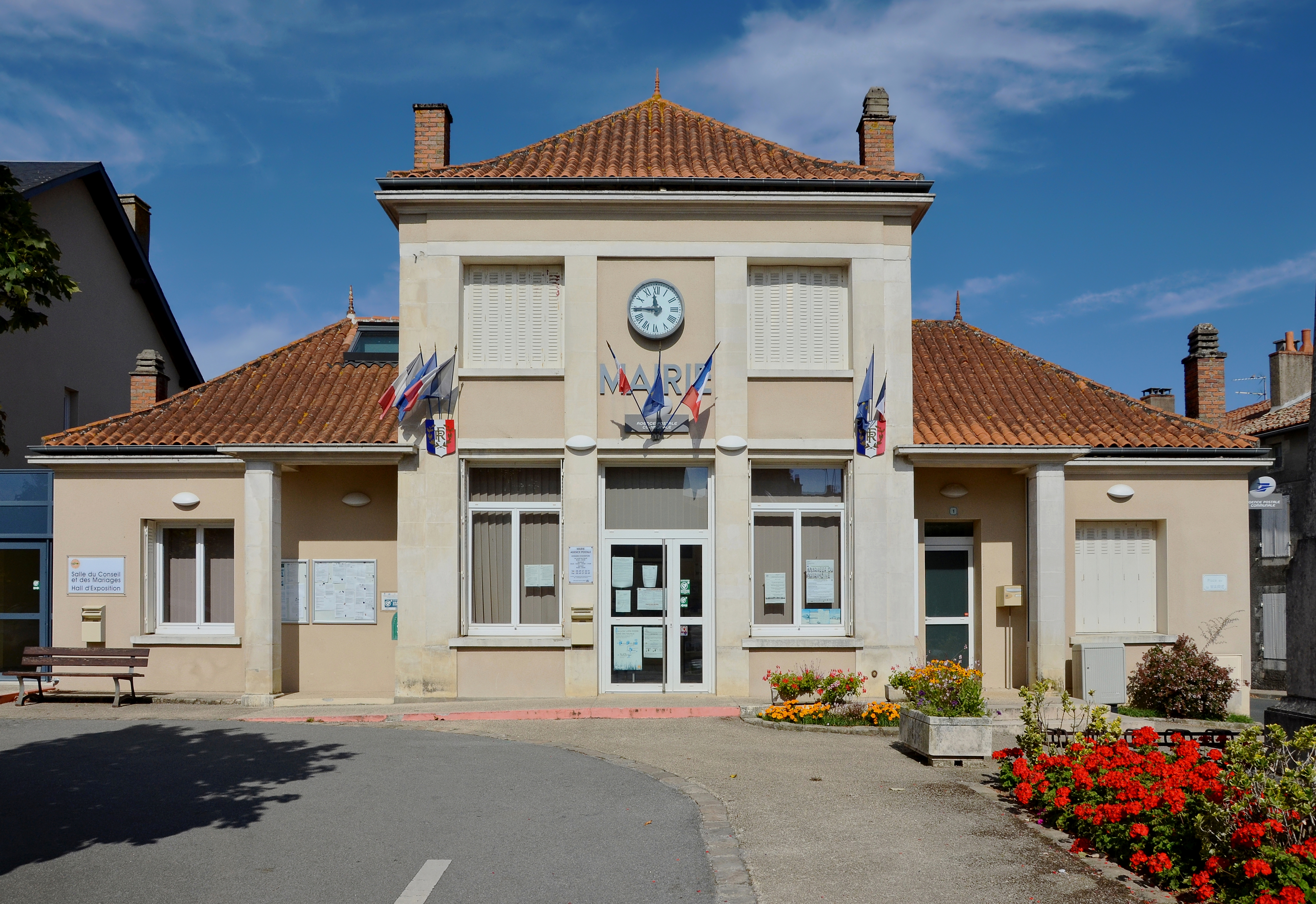 Facade of the town hall, Champagné-Saint-Hilaire, Vienne, France.